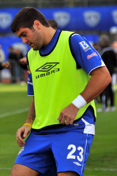 Photo of soccer player, Cody Laurendi.